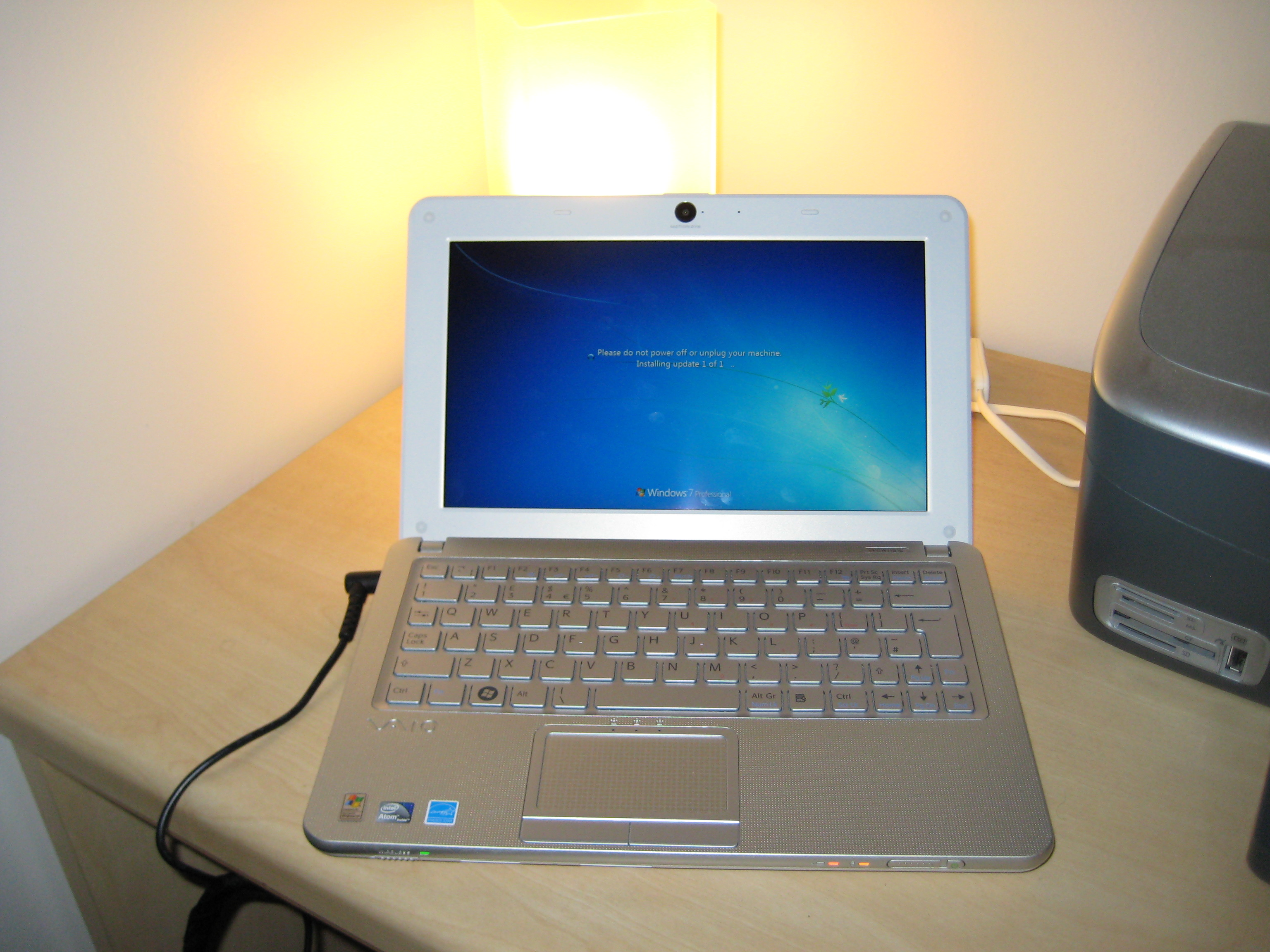 Photograph of a Sony VAIO VPCW11S1E/W Notebook Computer running Windows 7 Professional).